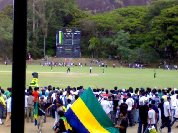 St Anne's College at big match 2009